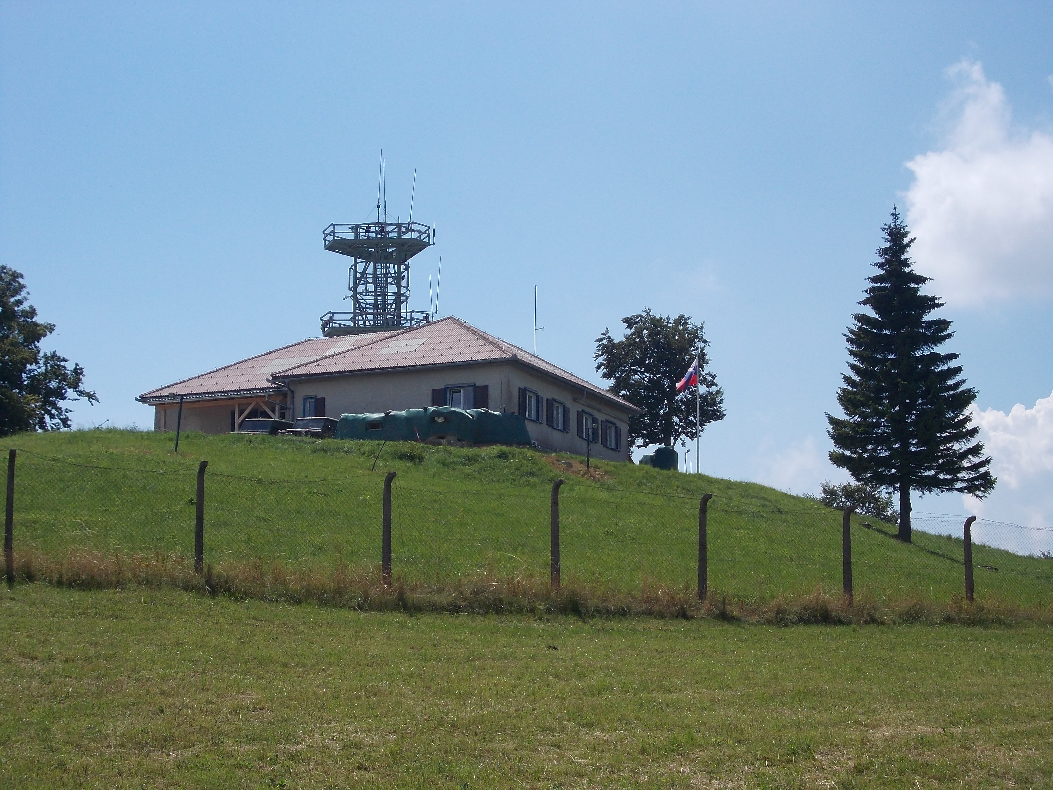 Trdina Peak Barrack